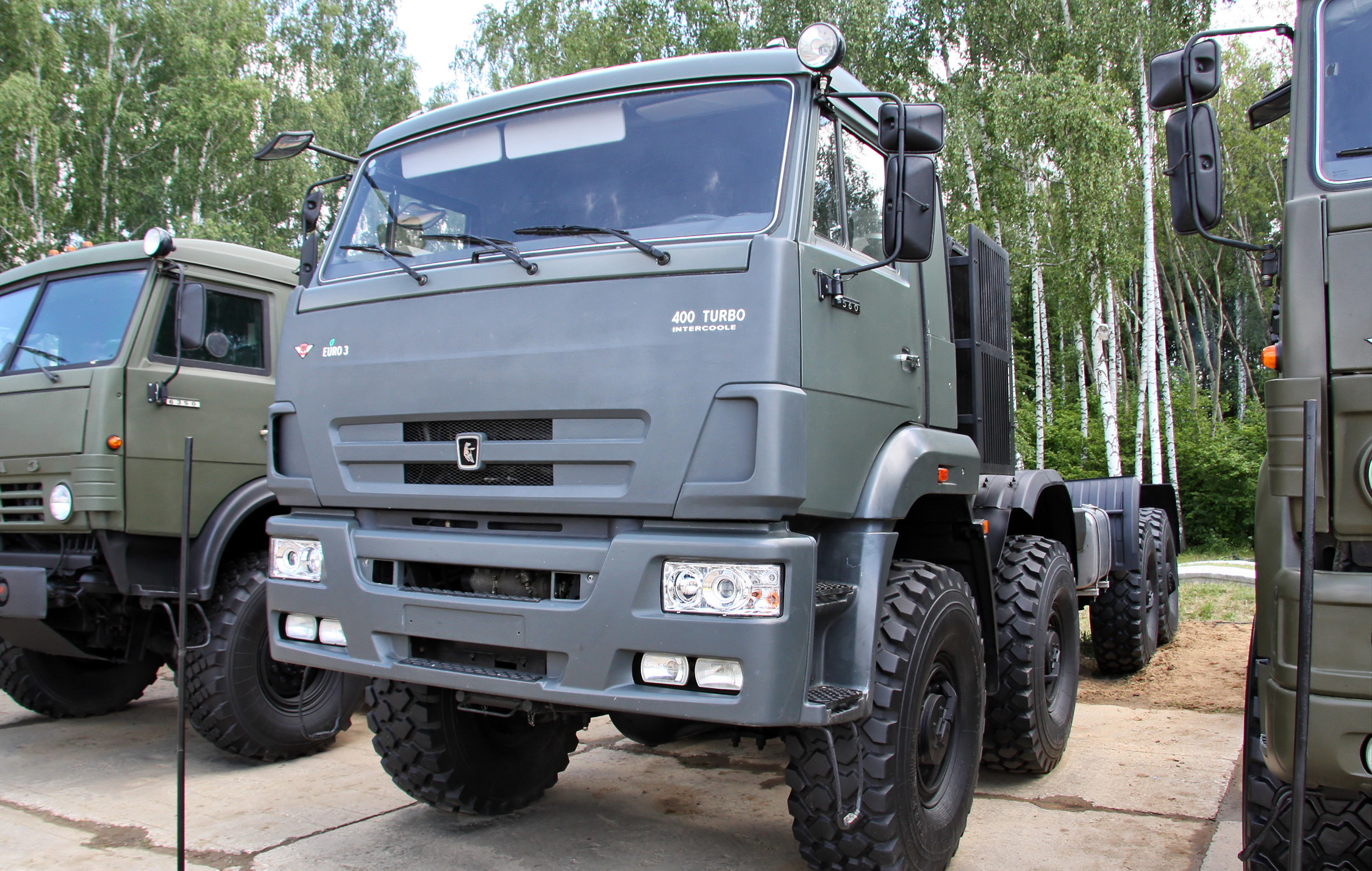 KamAZ-6560 (Exhibition of military vehicles at Bronnitsy test range)